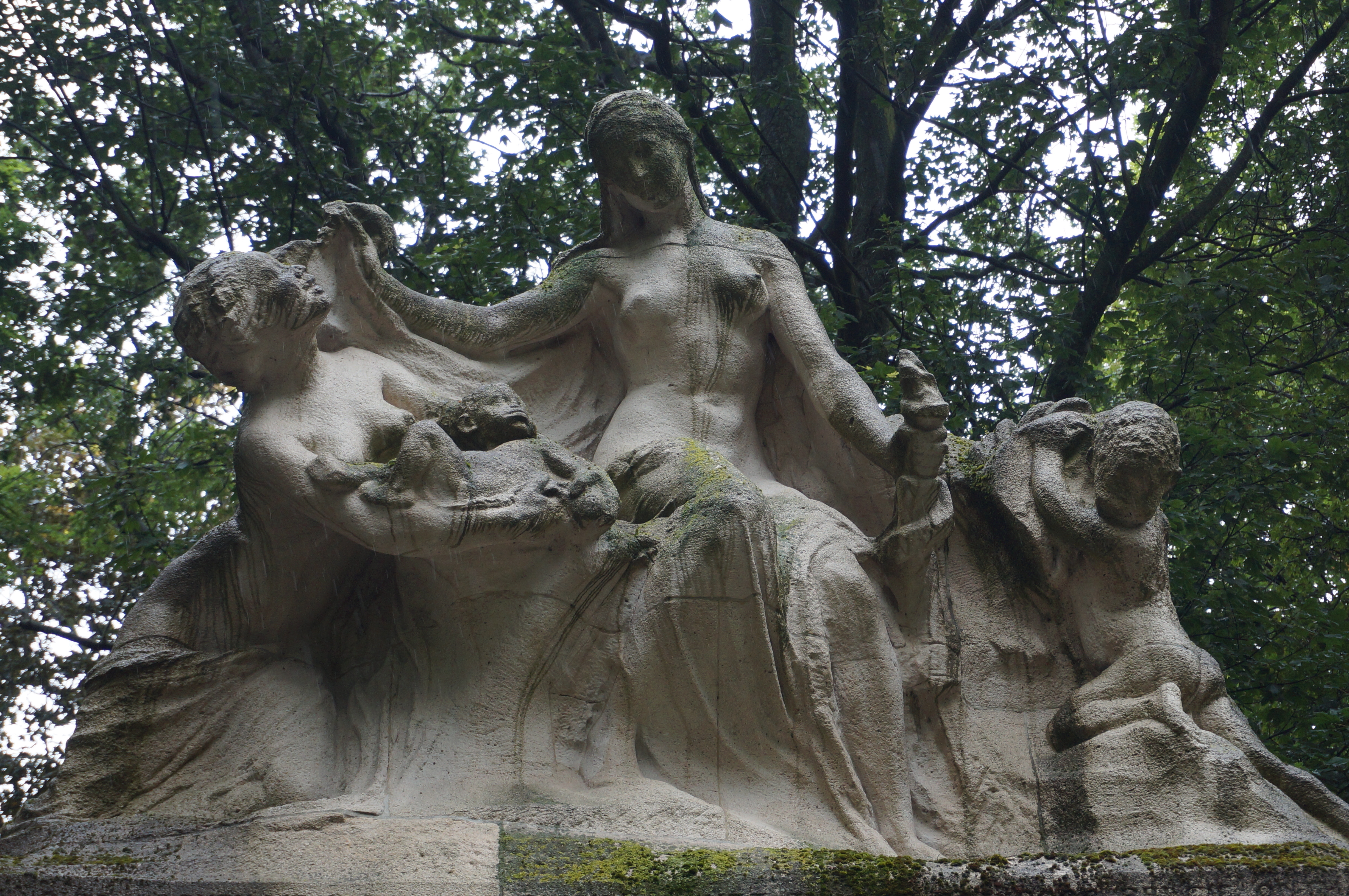 The monument for the Belgian Pioneers in the Congo is a monument in the Cinquantenaire Park in Brussels to commemorate the efforts of Belgians in Belgian Congo. It is highly controversial because it romanticizes the Belgian colonial project.